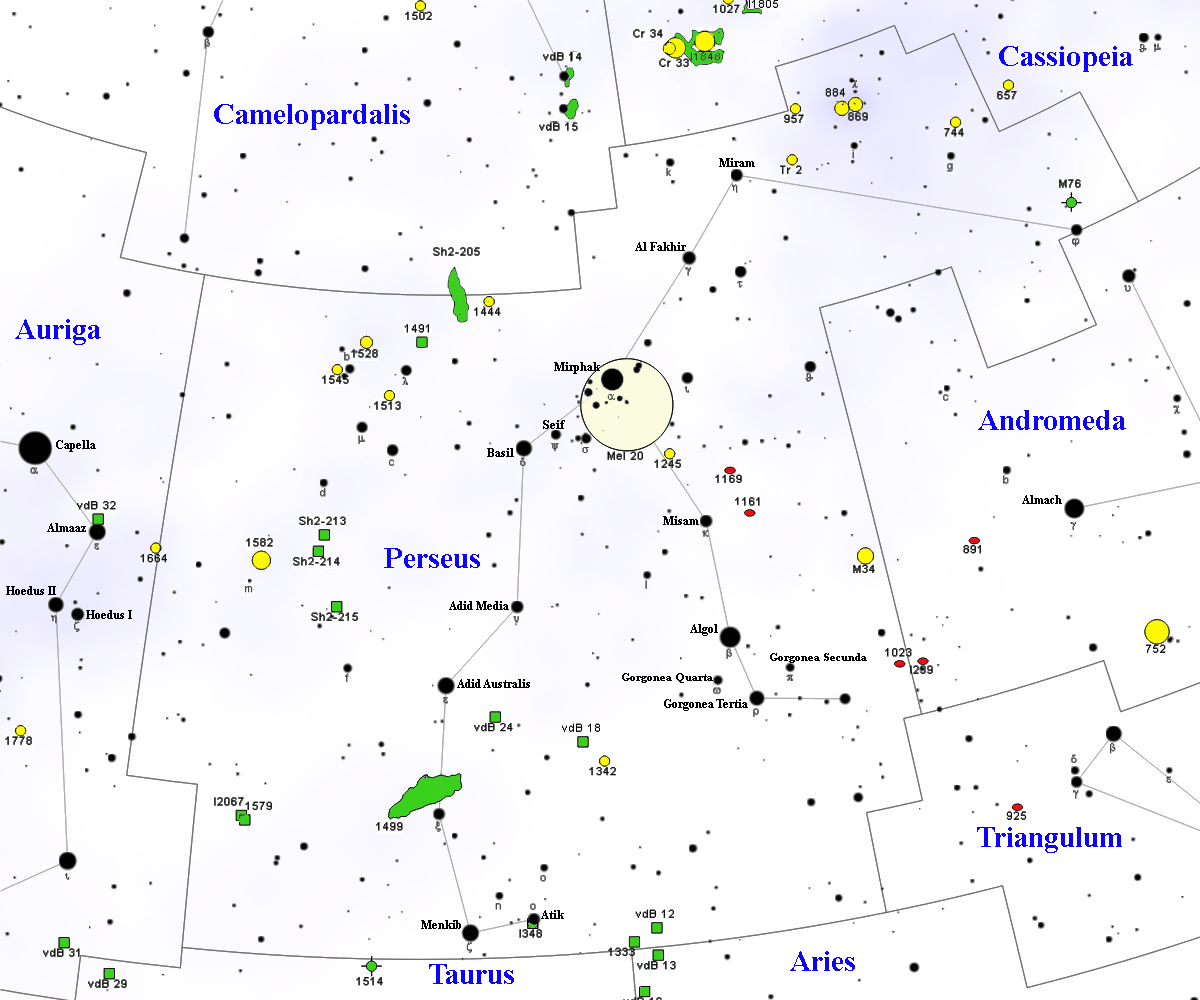 Perseus constellation map, with DSOs